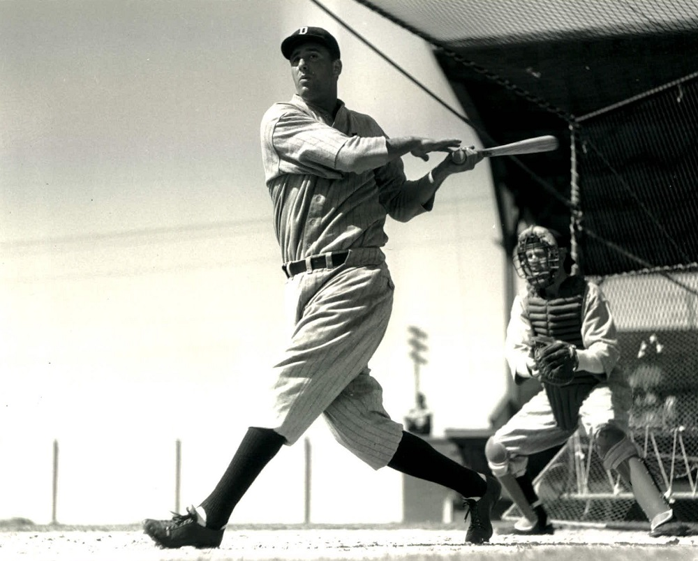 Detroit Tiger baseball player Hank Greenberg in action at bat.